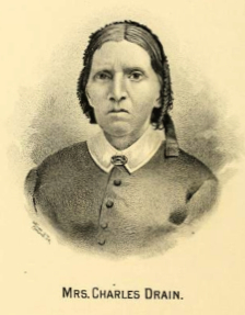 Portrait of Mrs. Charles Drain.